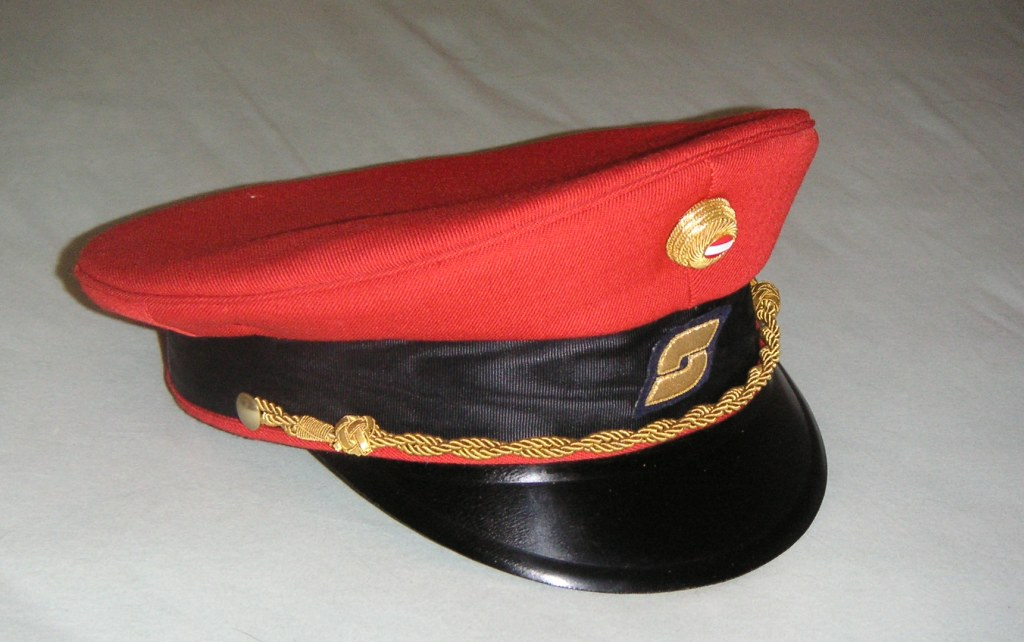 cap of a train dispatcher, Austrian Federal Railways